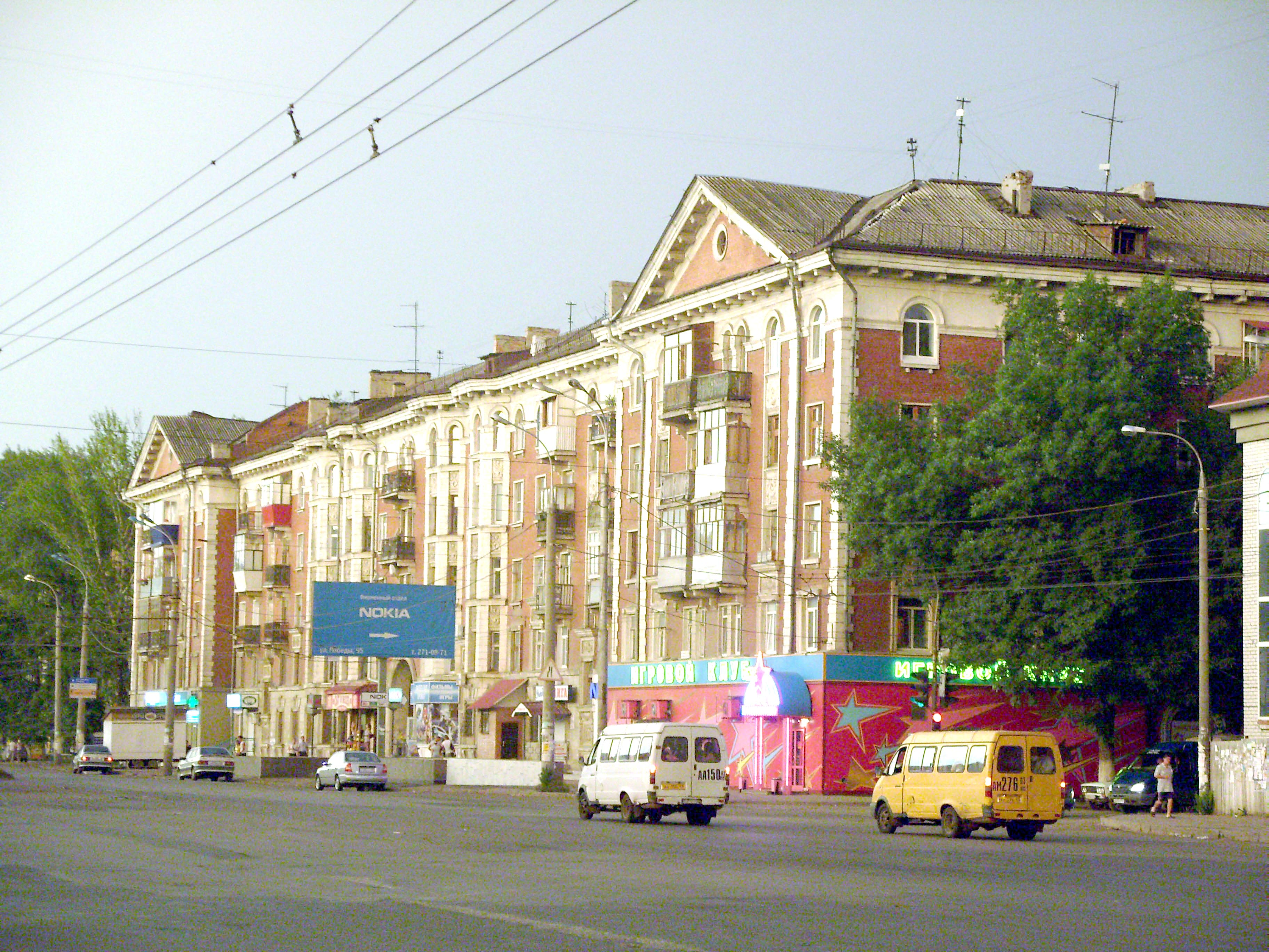 Pobeda street, Samara